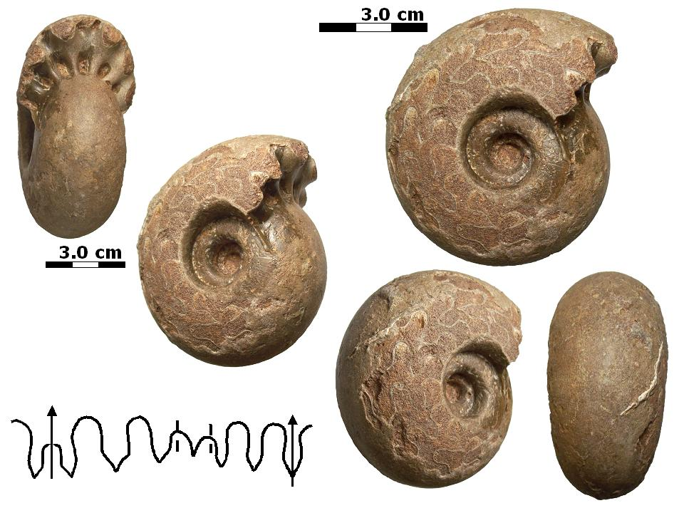 Ammonite belonging to the genus Metalegoceras Schindewolf. Specimen from East Timor. The specimen is a phragmocone, partially peeled, showing the suture. The complete sutural pattern is reported. Parameters: maximum diameter = 7.4 cm; whorl width = 4.0 cm; whorl minimum height = 2.0 cm; whorl maximum height = 3.0 cm; umbilicus diameter = 2.5 cm.